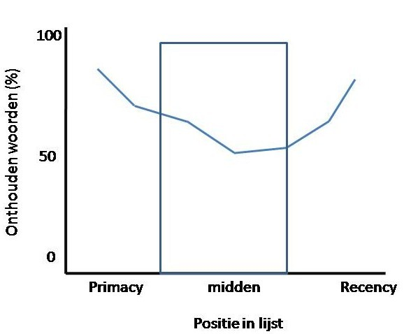 Serial position curve